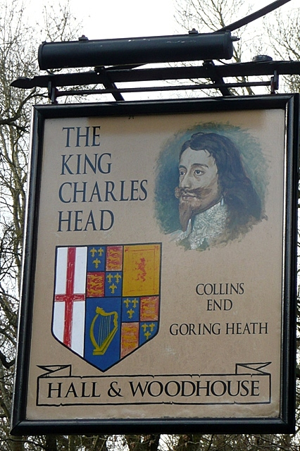 The King Charles Head. The pub sign for this former pub still hangs outside. The pub is here 1166729